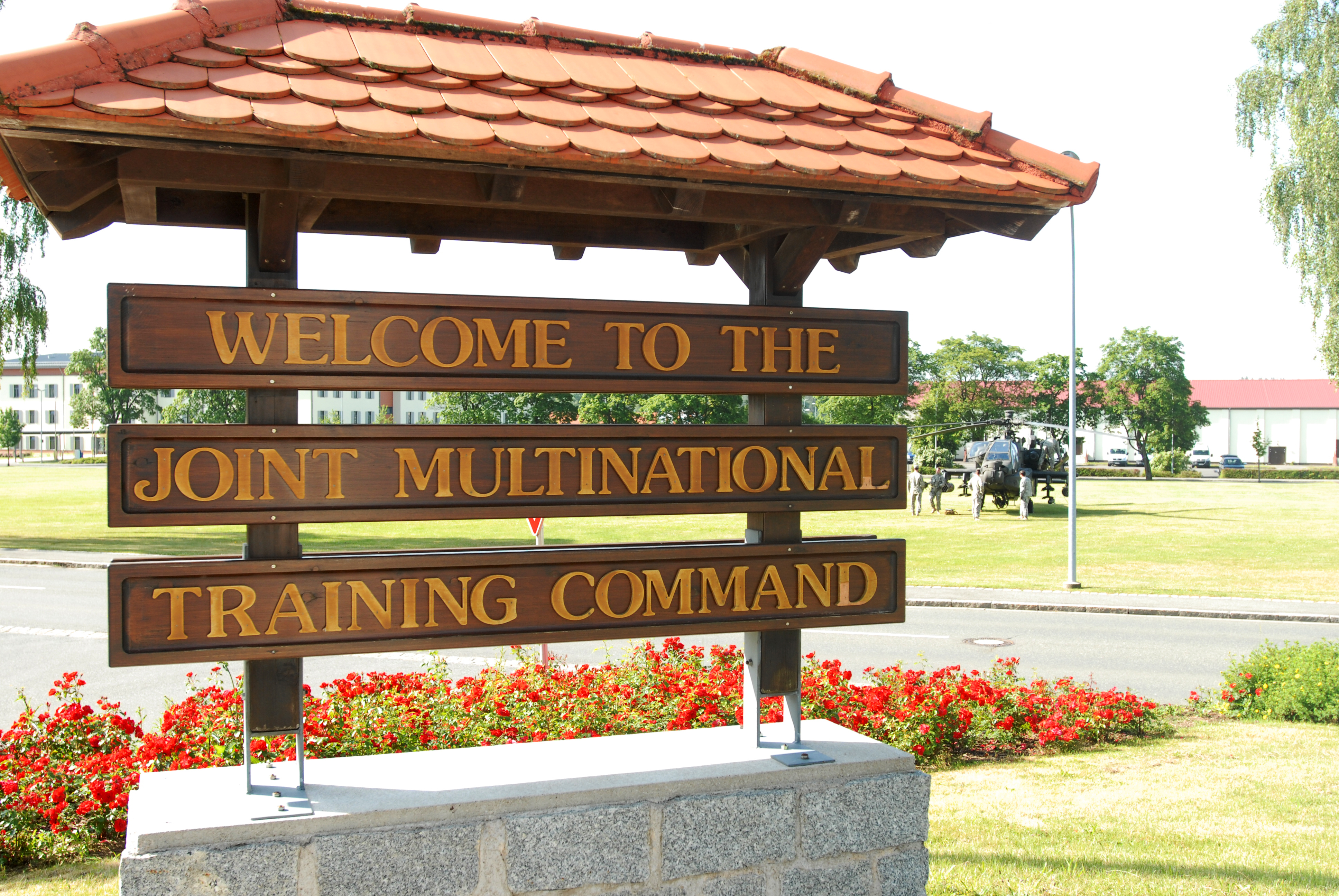 A UH-64 Apache helicopter sits on the Grafenwoehr parade field in front of the 7th Army Joint Multinational Training Command headquarters, June 25, 2015. The Apache is preparing to take Lt. Gen. Ben Hodges, commanding general of U.S. Army Europe, on an aerial observation of the Grafenwoehr Training Area during a live-fire exercise of Combined Resolve IV. (U.S. Army photo by Lt. Col. Brian Carlin)